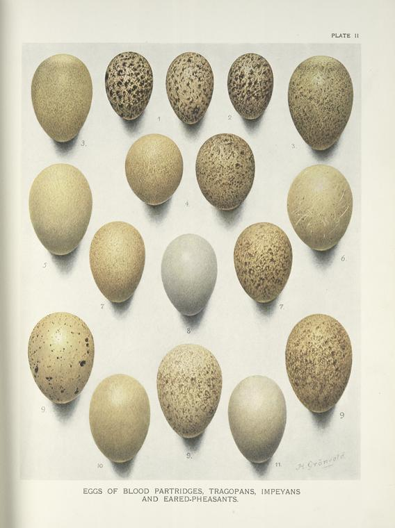 Eggs of Tragopans, pheasants etc. 1. Two eggs of Geoffroy's Blood Partridge (Geoffroy's Blood Pheasant = Ithaginis cruentus geoffroyi) 2. Egg of Kuser's Blood Partridge (Kuser's Blood Pheasant = Ithaginis cruentus kuseri) 3. Two eggs of Satyr Tragopan (Tragopan satyra) 4. Two eggs of Cabot's Tragopan (Tragopan caboti) 5. Egg of Western Tragopan (Tragopan melanocephalus) 6. Egg of Blyth's Tragopan (Tragopan blythii) 7. Two eggs of Temminck's Tragopan (Tragopan temminckii) 8. Egg of Brown Eared-Pheasant (Crossoptilon mantchuricum) 9. Three eggs of Impeyan Pheasant (Lophophorus impejanus) 10. Egg of White Eared Pheasant (Crossoptilon crossoptilon) 11. Egg of Blue Eared Pheasant (Crossoptilon auritum)